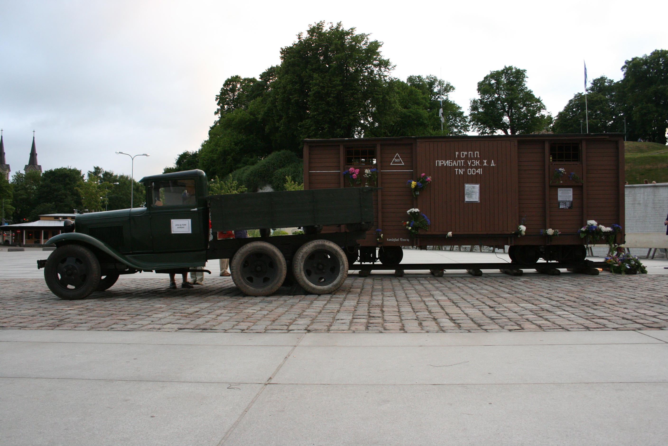 Exhibtion of vehicles similar to these that were used for deporting people to Siberia in 1941. Freedom Square, Tallinn